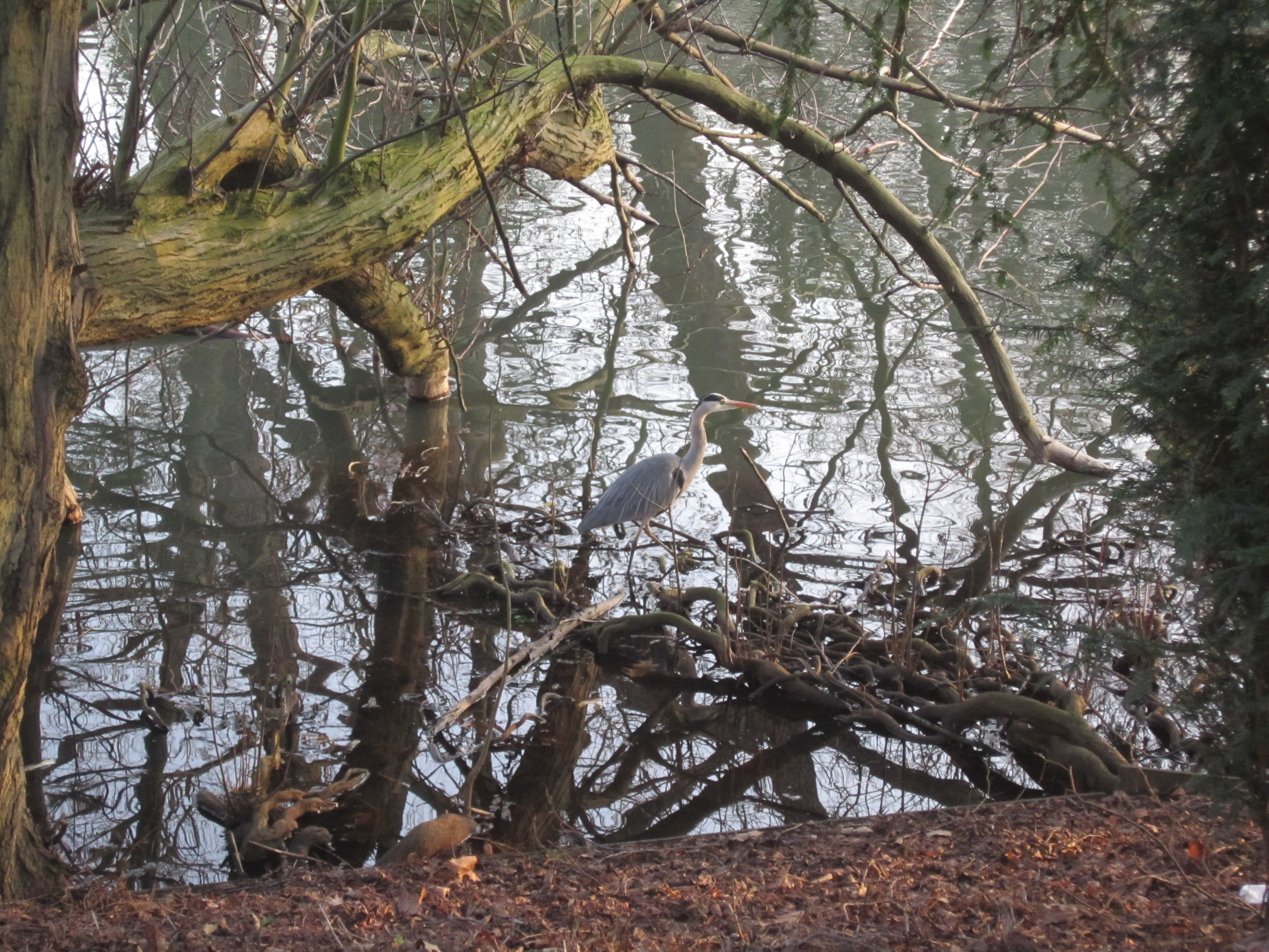 Heron in the "Volksgarten" in Duesseldorf